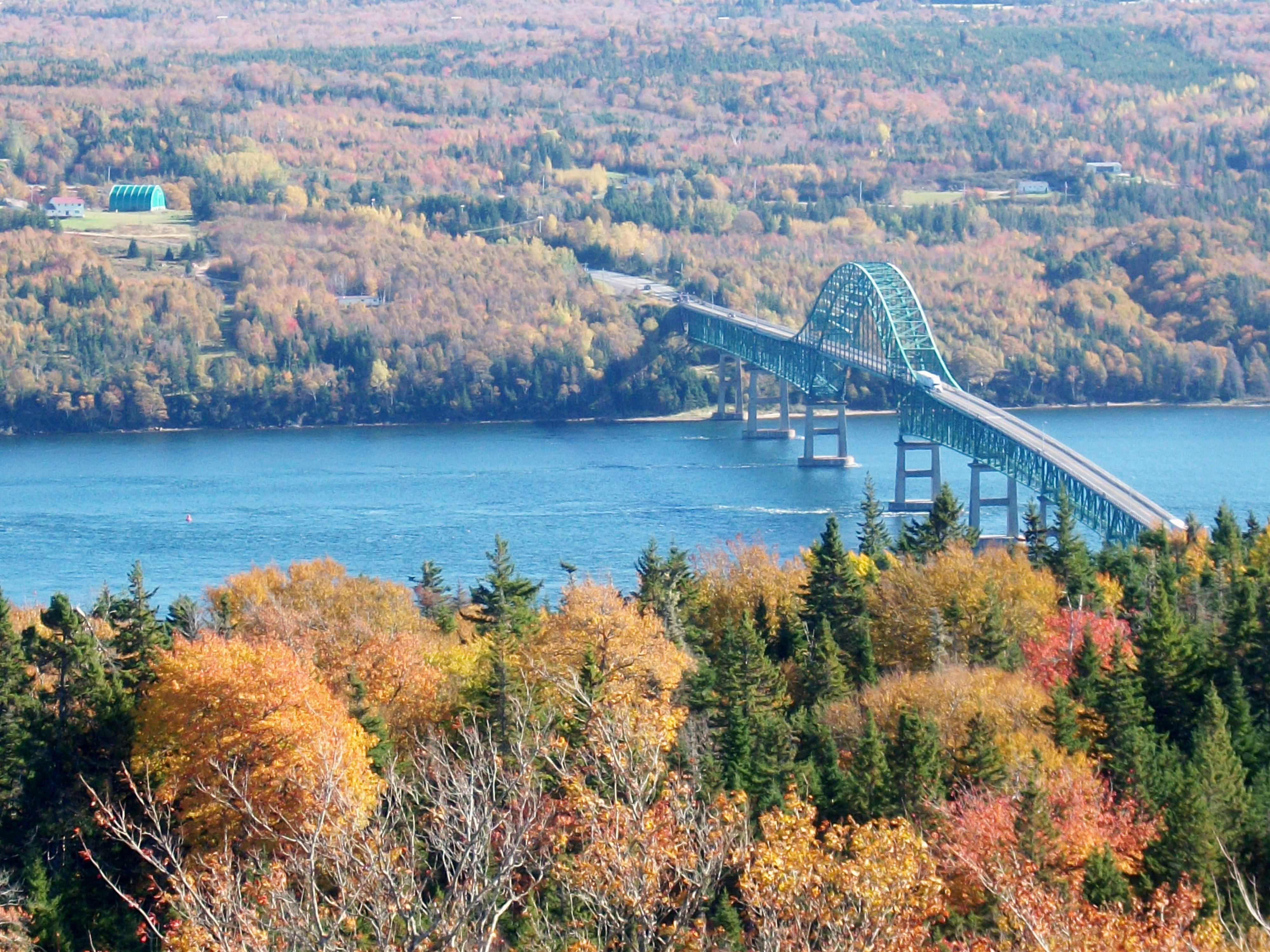 The Seal Island Bridge, the largest bridge on Cape Breton Island, connects the more urban and populated Cape Breton Regional Municipality on the eastern side of the Island, to the rural Victoria County (the boundary is just to the east of the bridge). It is located below Kelly's Mountain on the Trans Canada Highway and spans the Great Bras d'Or channel of the Bras d'Or Lake. It is the 3rd longest bridge in Nova Scotia.[1]